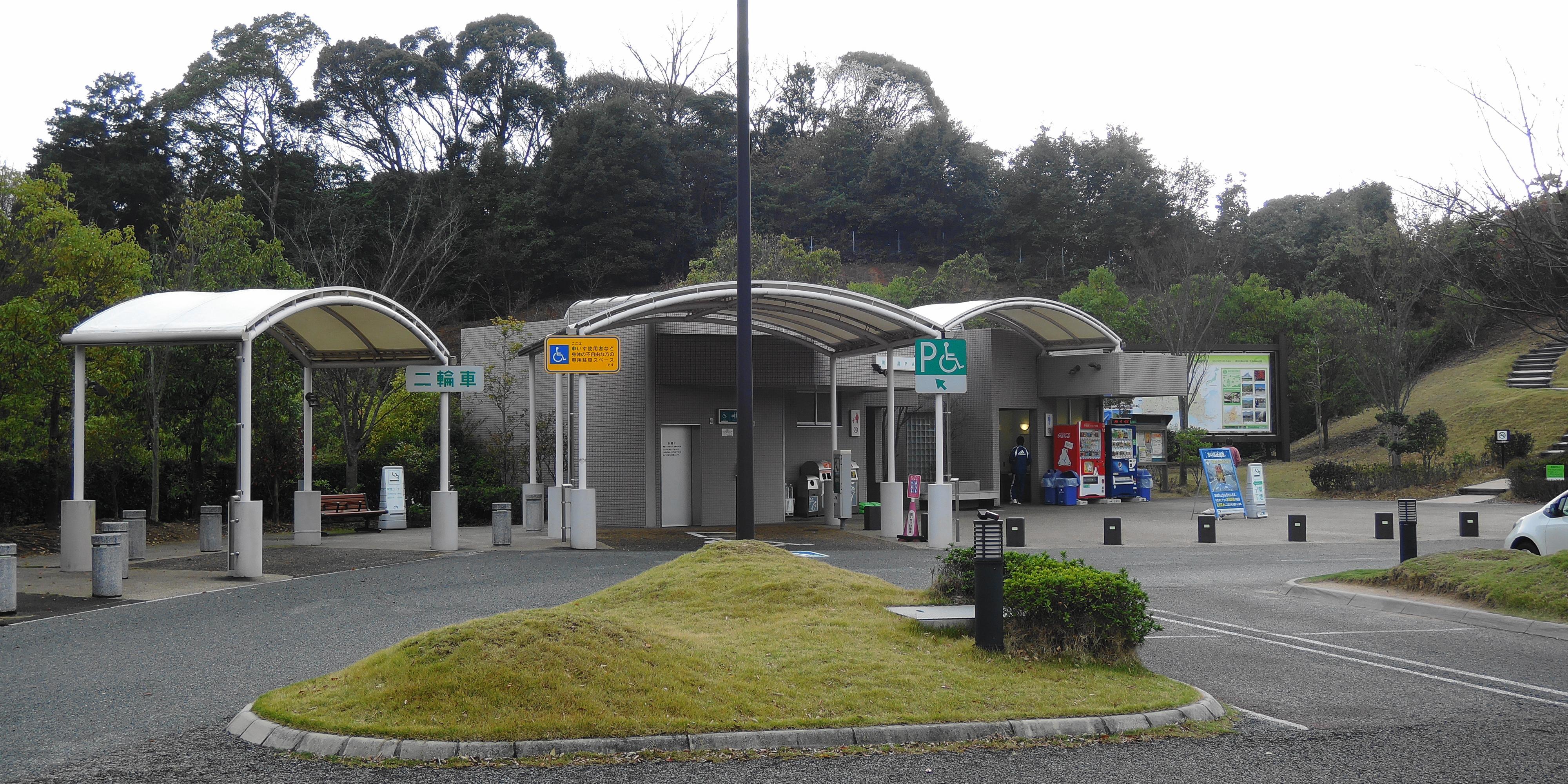 Suounada Paking Area ,Yamaguchi prefecture,Japan